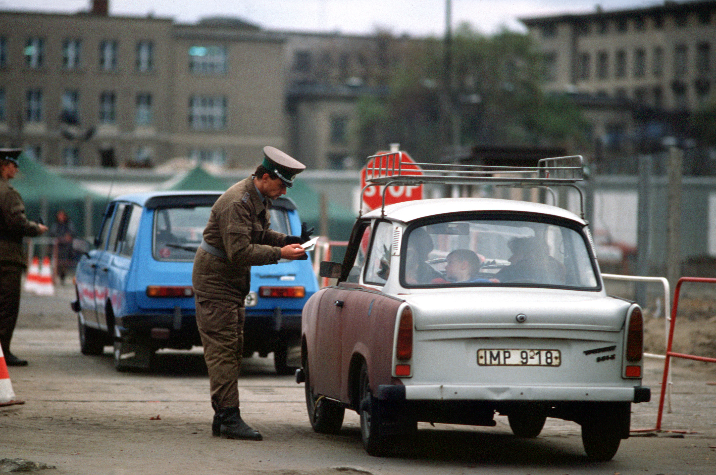 An East German policeman monitors traffic returning to East Berlin through the newly created opening in the Berlin Wall at Potsdamer Platz.